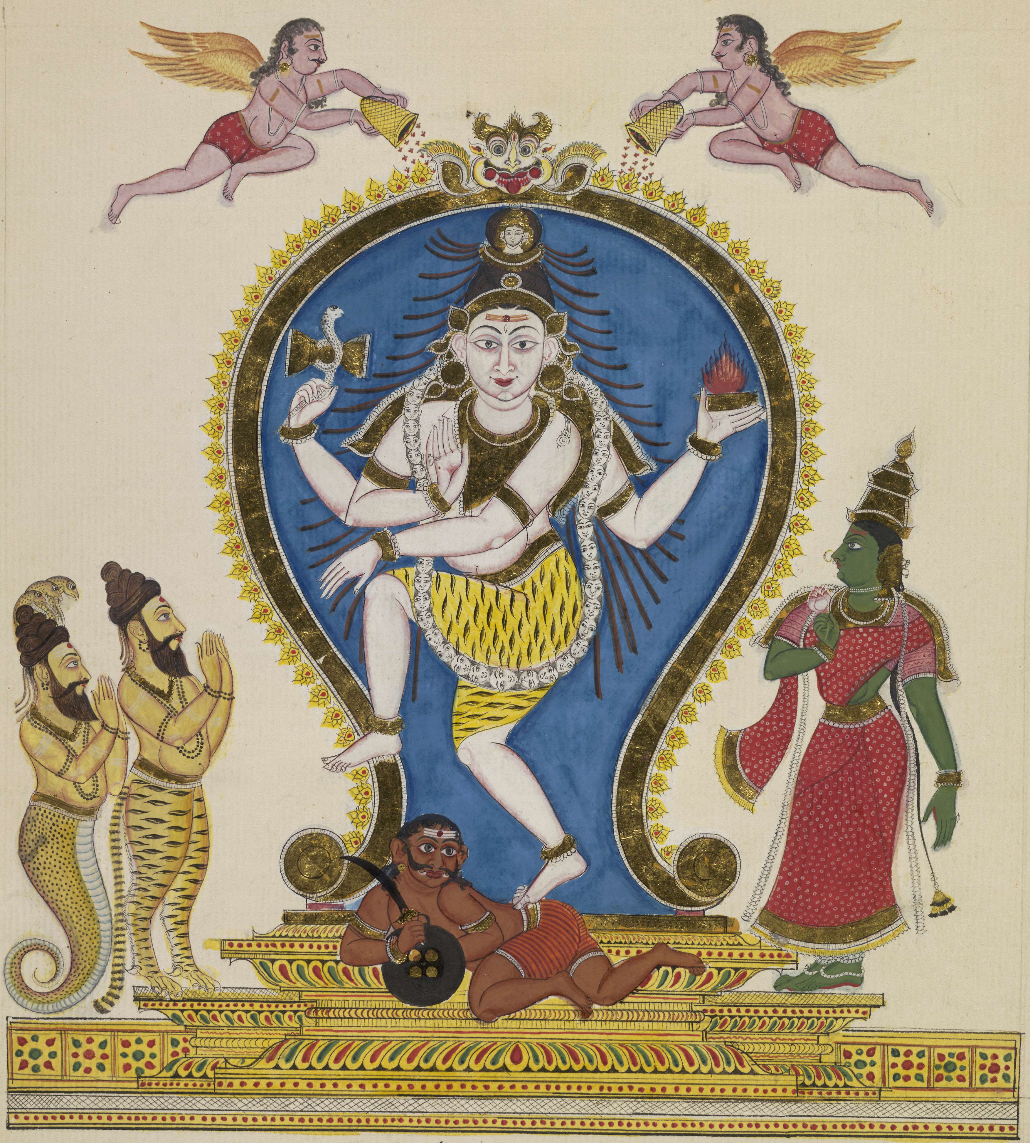 "The Chidambaram tableau: Śiva dances the ananda tandava, the eternal dance of creation and destruction. Śiva, dressed in a tiger skin, dances the ananda tandava, the eternal dance of creation and destruction. His figure set off by a blue background is surrounded by a prabhavali. The right foot of the god is firmly planted on the spine of the wriggling and dwarfish Apasmara purusha, who represents ignorance. In his right upper hand the god carries the damaru, in his left upper hand, the fire. His lower right hand is in abhaya mudra and his lower left points at his raised foot. The Ganga peeps out of his crown of matted hair and in the whirling of the dance, some dreadlocks have become loose and fly around his person. A wreath of severed heads hangs from his neck. The crescent moon rests on his forehead above the tripundra marks. (In all these Śiva images of this album the third eye is never emphasized but rather suggested between the eyebrows). The Apasmara purusha carries in his hands sword and buckler. Fangs protrude from his mouth and on his forehead is a conspicuous tripundra. To the left of Nataraja is his consort the green-complexioned Shivakamasundari, robed in a red sari and bedecked with jewels. In her right hand she carries a lotus flower. To the right of the dancing god stand his two foremost devotees, the tiger-footed Vyaghrapada and Patanjali, with the lower body and hood of a snake. Both have hands in anjali mudra. Gandharvas fly above the tableau carrying baskets of flowers and scatter petals on the dancing god."